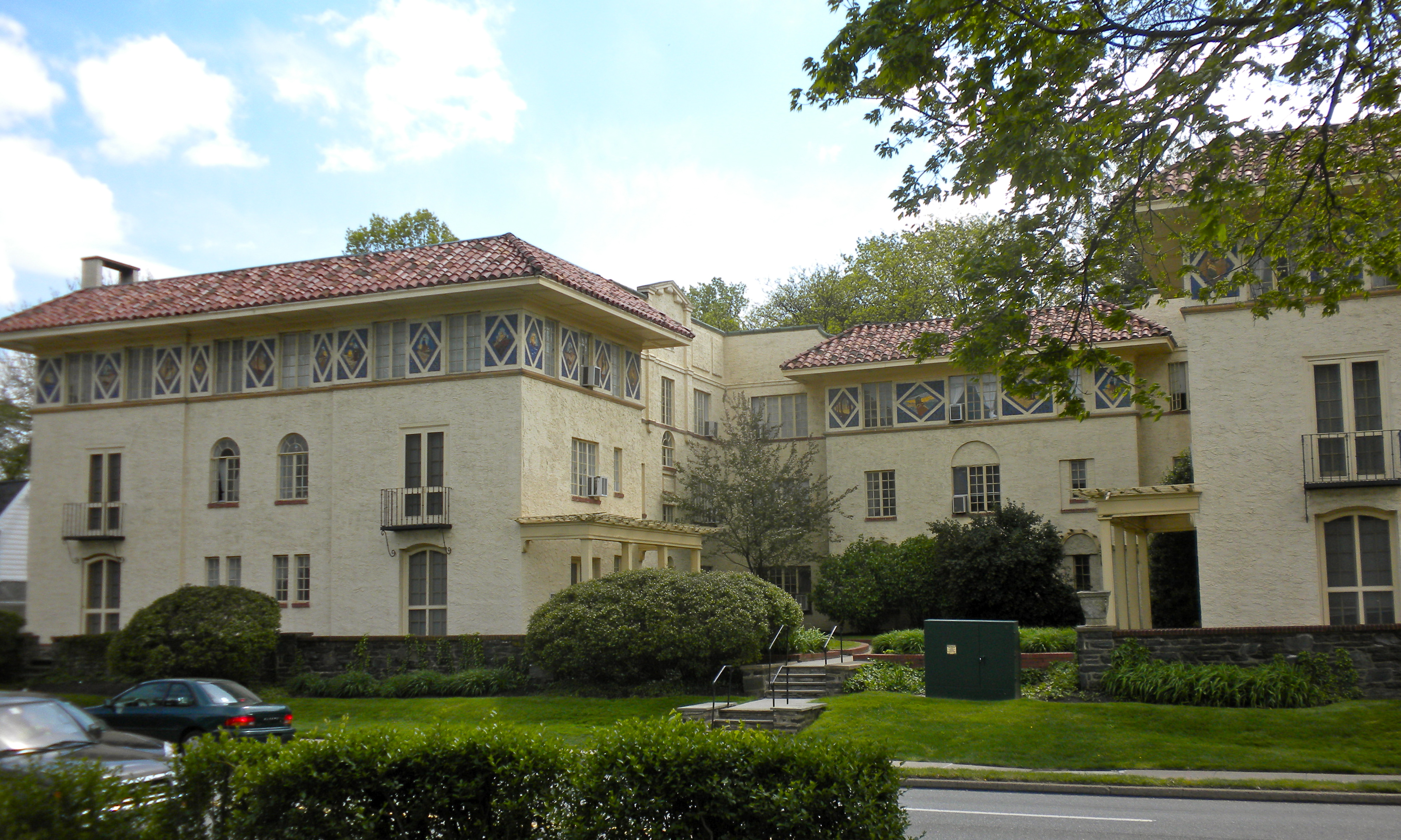 Whitehall Apartments on NRHP since December 28, 1983. At 410 West Lancaster Avenue, Haverford, Pennsylvania along the "Main Line"